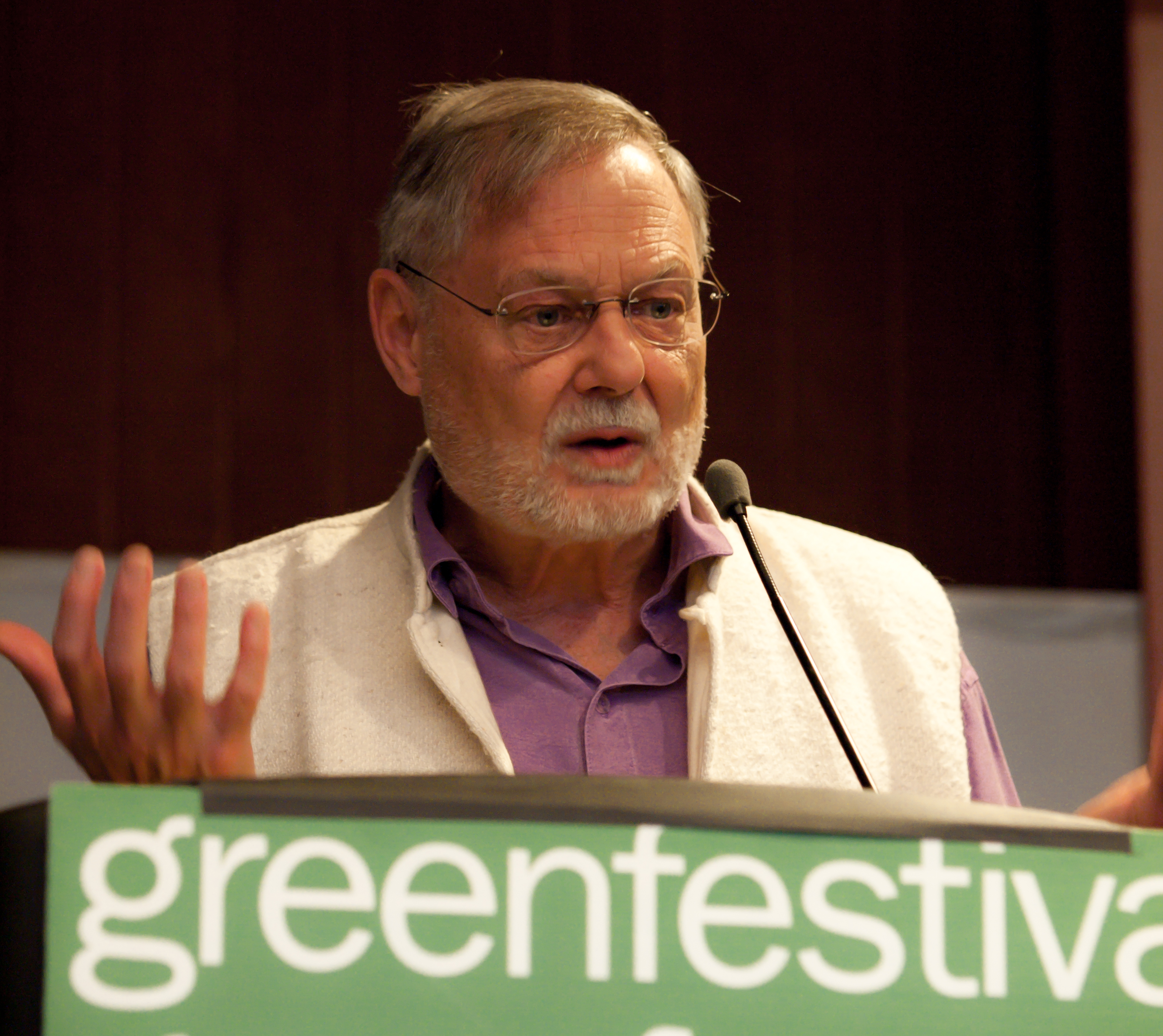 Duane Elgin at the Green Festival of San Francisco in 2010.